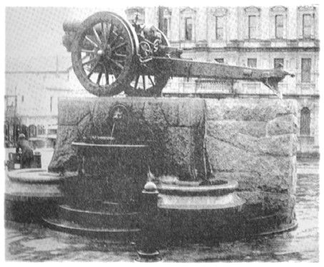 The South African Heavy Artillery Memorial, Market Square, Port Elizabeth. Six 6"-howitzers were donated to the Union of South Africa by the British Government in 1921 in recognition for services rendered during WWI. The other howitzers are in Cape Town, Johannesburg and Pretoria. The gun was relocated to St. George's Park in February 1933 when the square was converted to the once-beautiful Mayor's Garden. Following it being sent for restoration it is now in Bloemfontein.